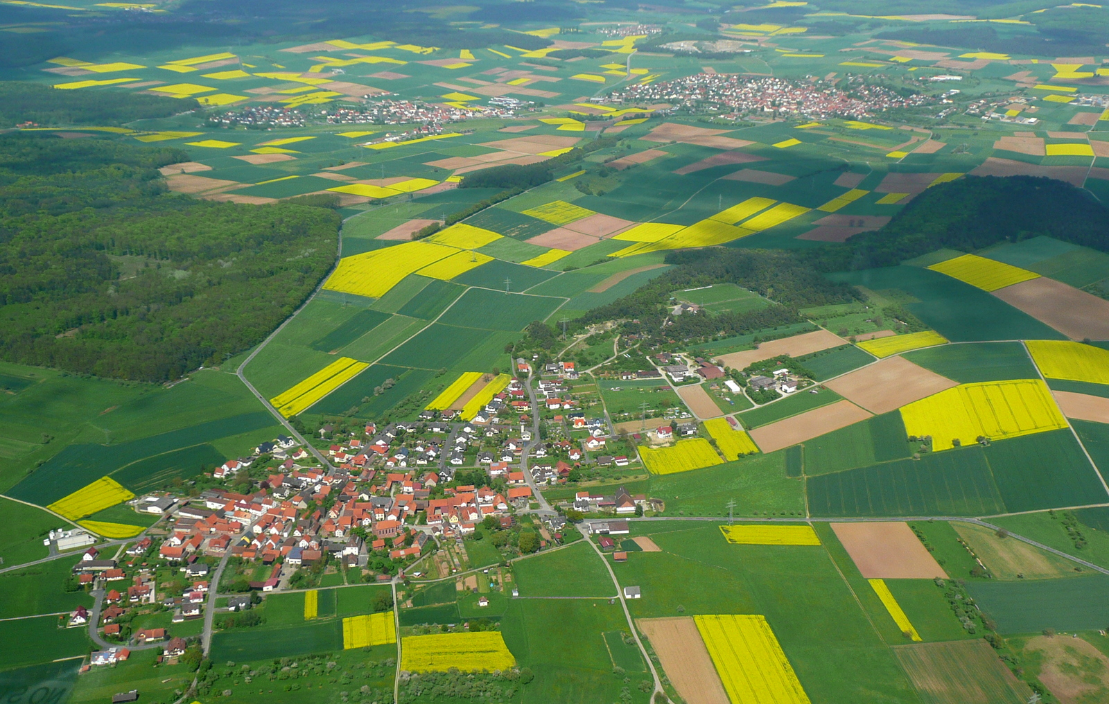 Aerial view of Steinfeld (Lower Franconia), Germany. Front Waldzell, back Hausen and Steinfeld